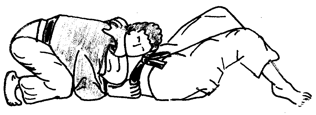 North-south grappling position, also sometimes known as 69.